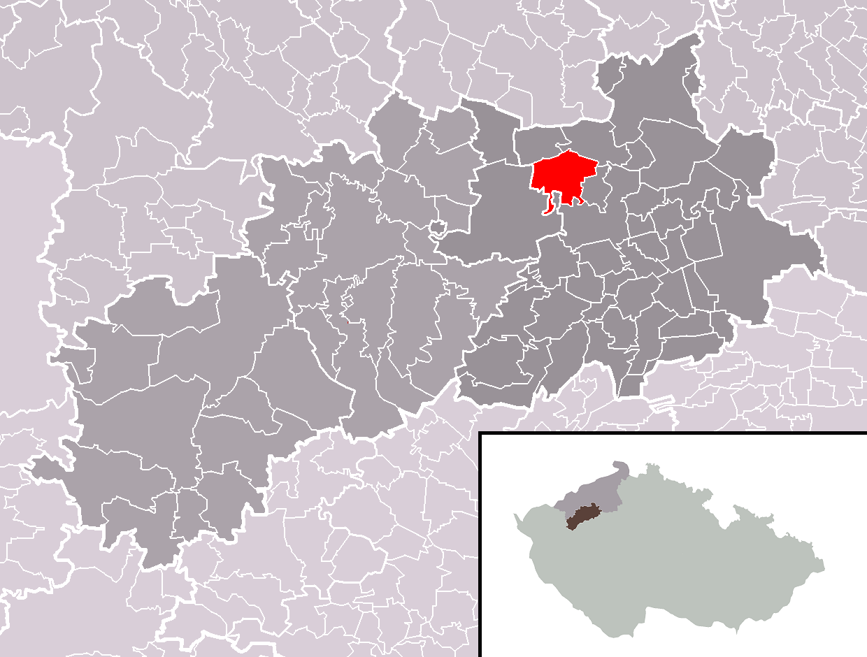 Location of Lenešice municipality within Louny District and administrative area of Louny as a Municipality with Extended Competence.